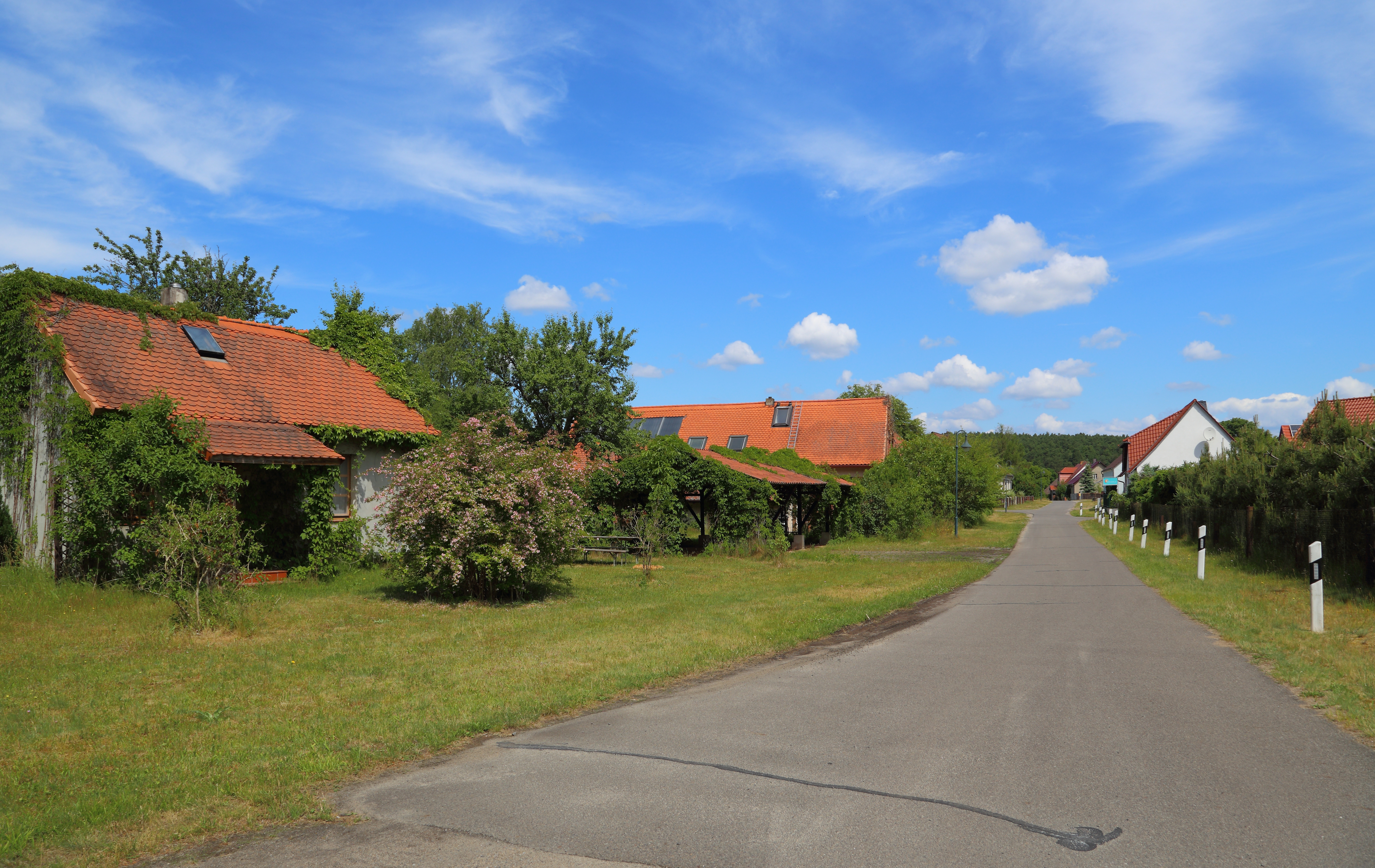 Lieberose Street (Lieberoser Straße) in Klein Liebitz, a hamlet of Lamsfeld-Groß Liebitz, a district of Schwielochsee, Landkreis Dahme-Spreewald, Brandenburg, Germany.